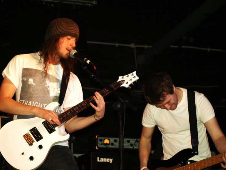 Colours of One performing at Cardiff University, September 2011.